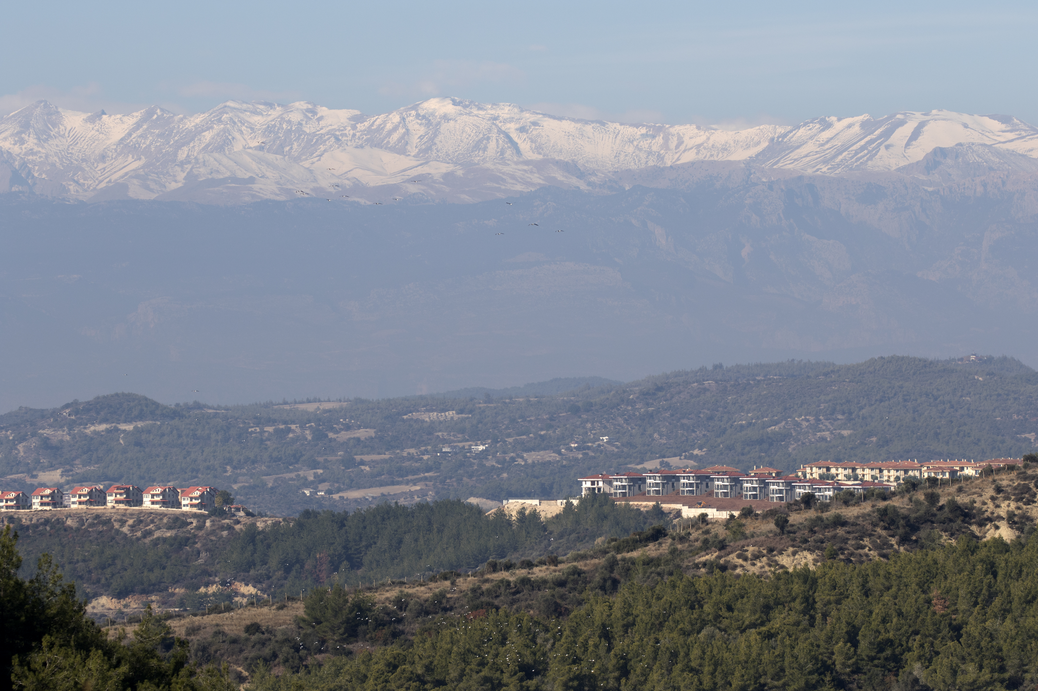 A far view of Bolkar Mts behind Menekşe, Sarıçam - Adana, Turkey.